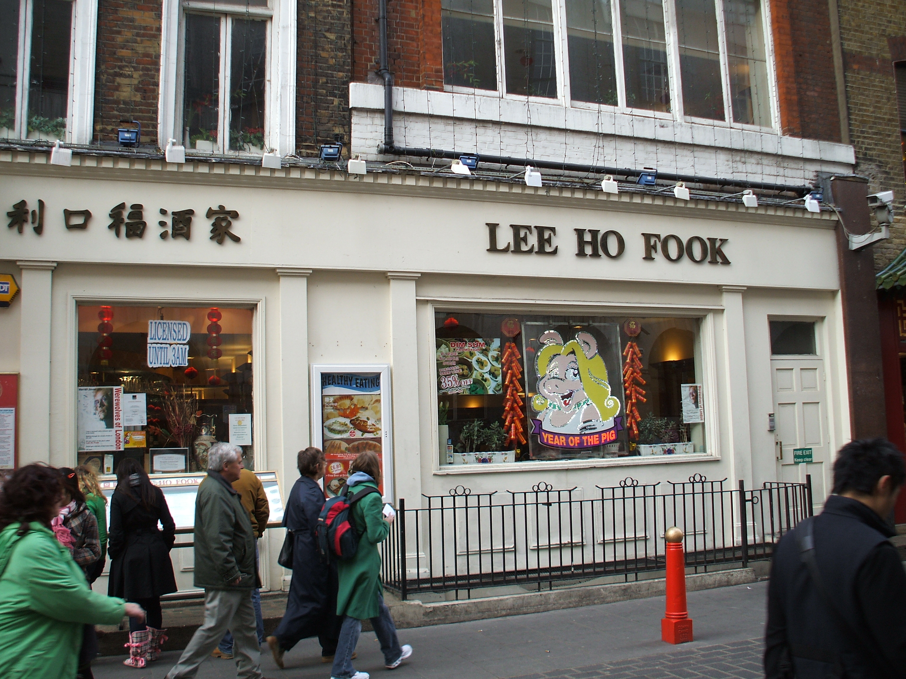 Lee Ho Fook (From the song)